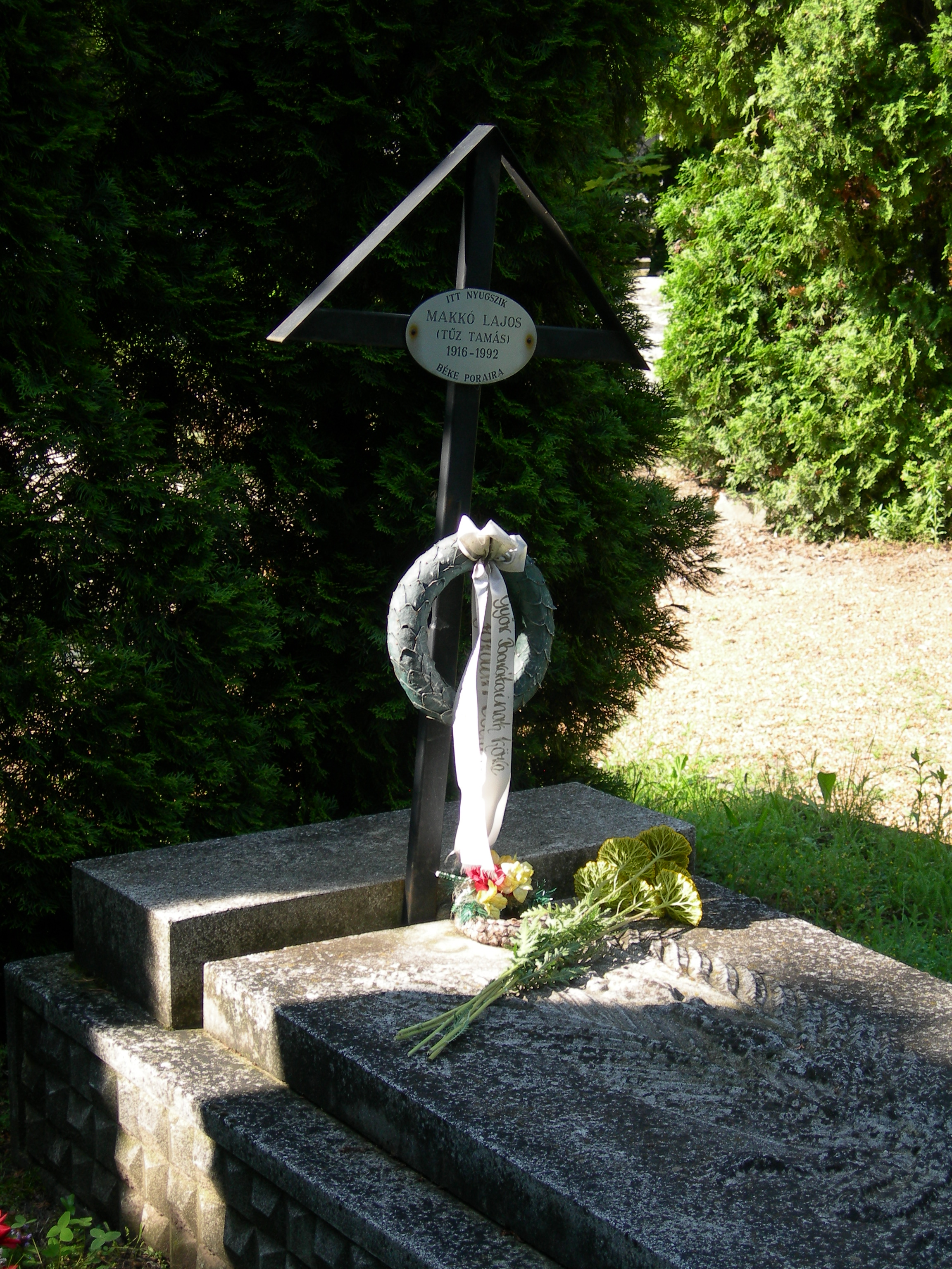 The grave of Tamás Tűz